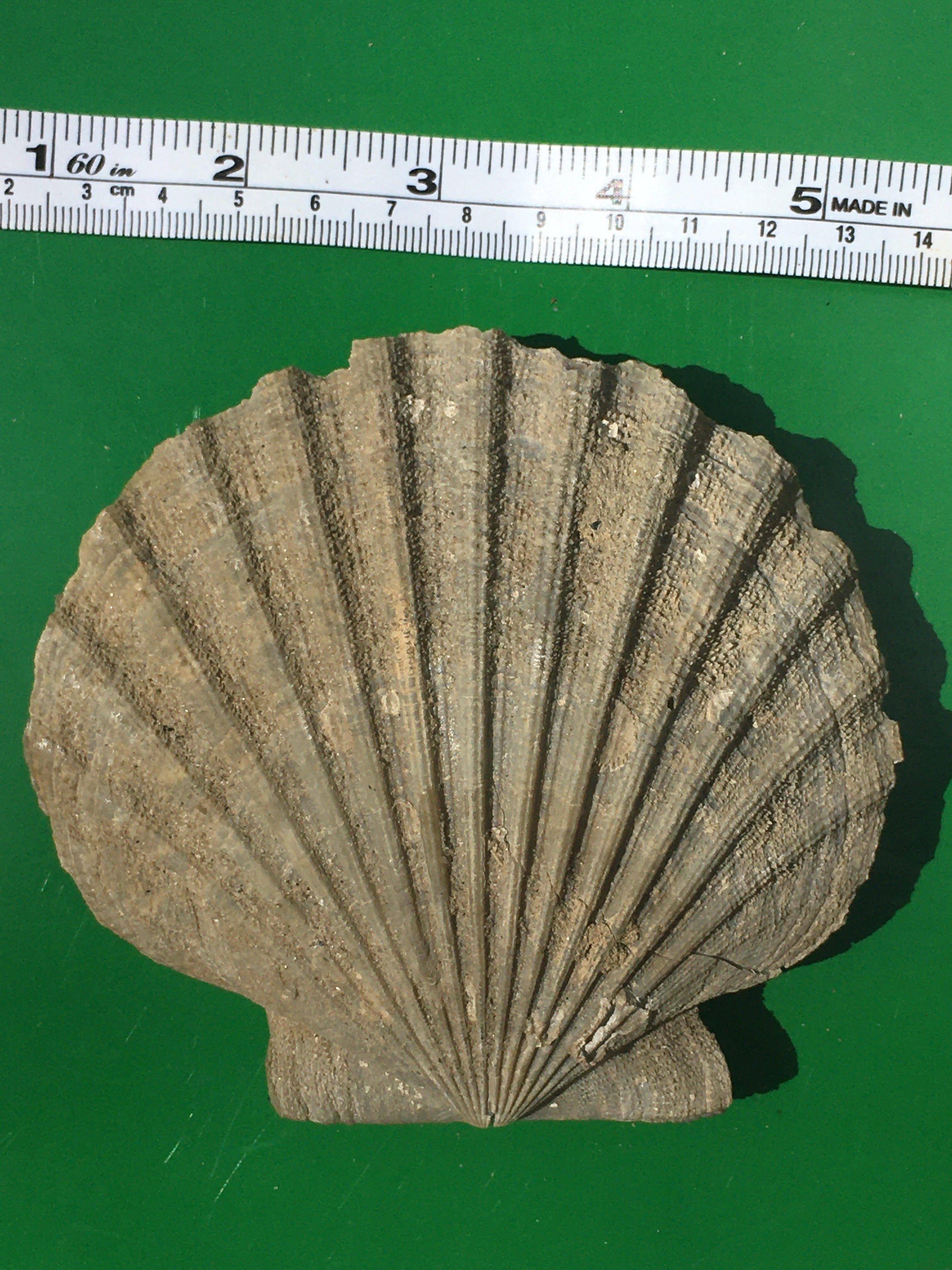 From Matoaka Cabins, St. Leonard, MD